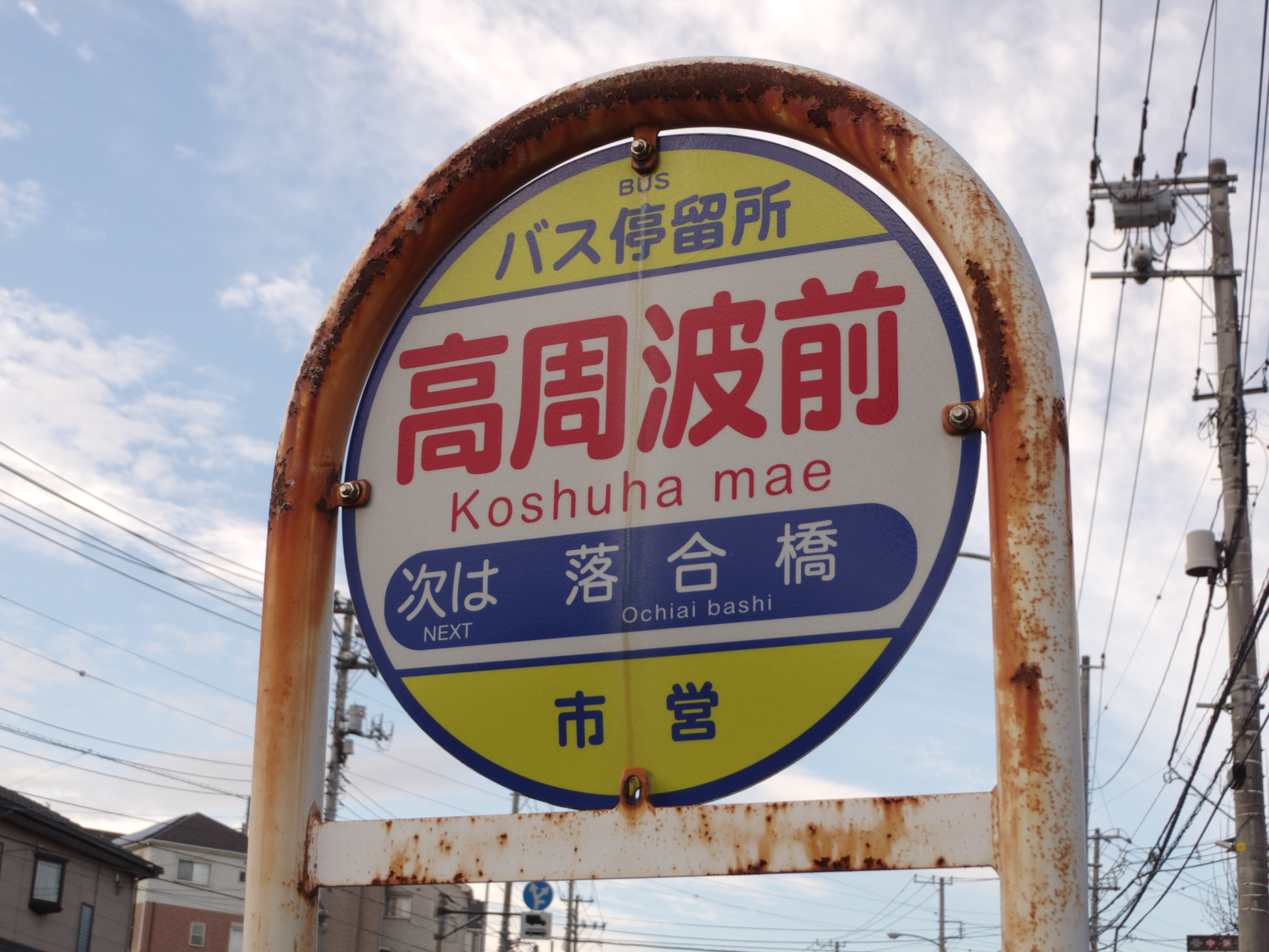 Bus stop sign at Nakayama in Yokohama city, Japan